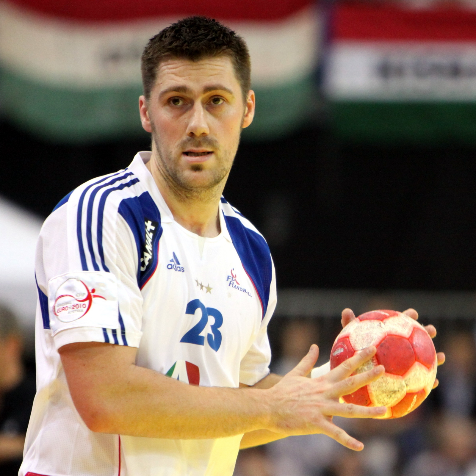 Sébastien Bosquet (Dunkerque HBGL), France national handball team